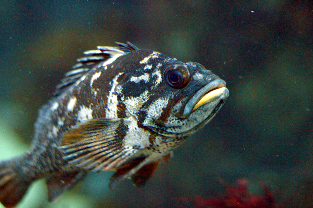 A gopher rockfish (Sebastes carnatus) from the Monterey Bay Aquarium. Summer 2004. Source: Taken by user (Tom Murphy VII)